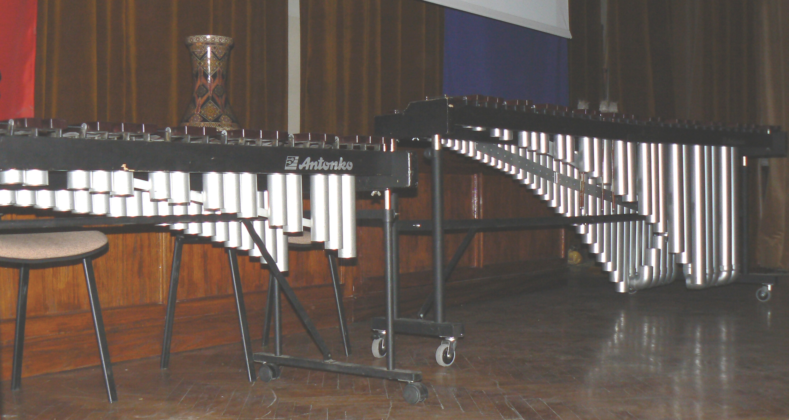 Xylophone (model Antonko AXF-09), marimba (model Antonko AMC-12)